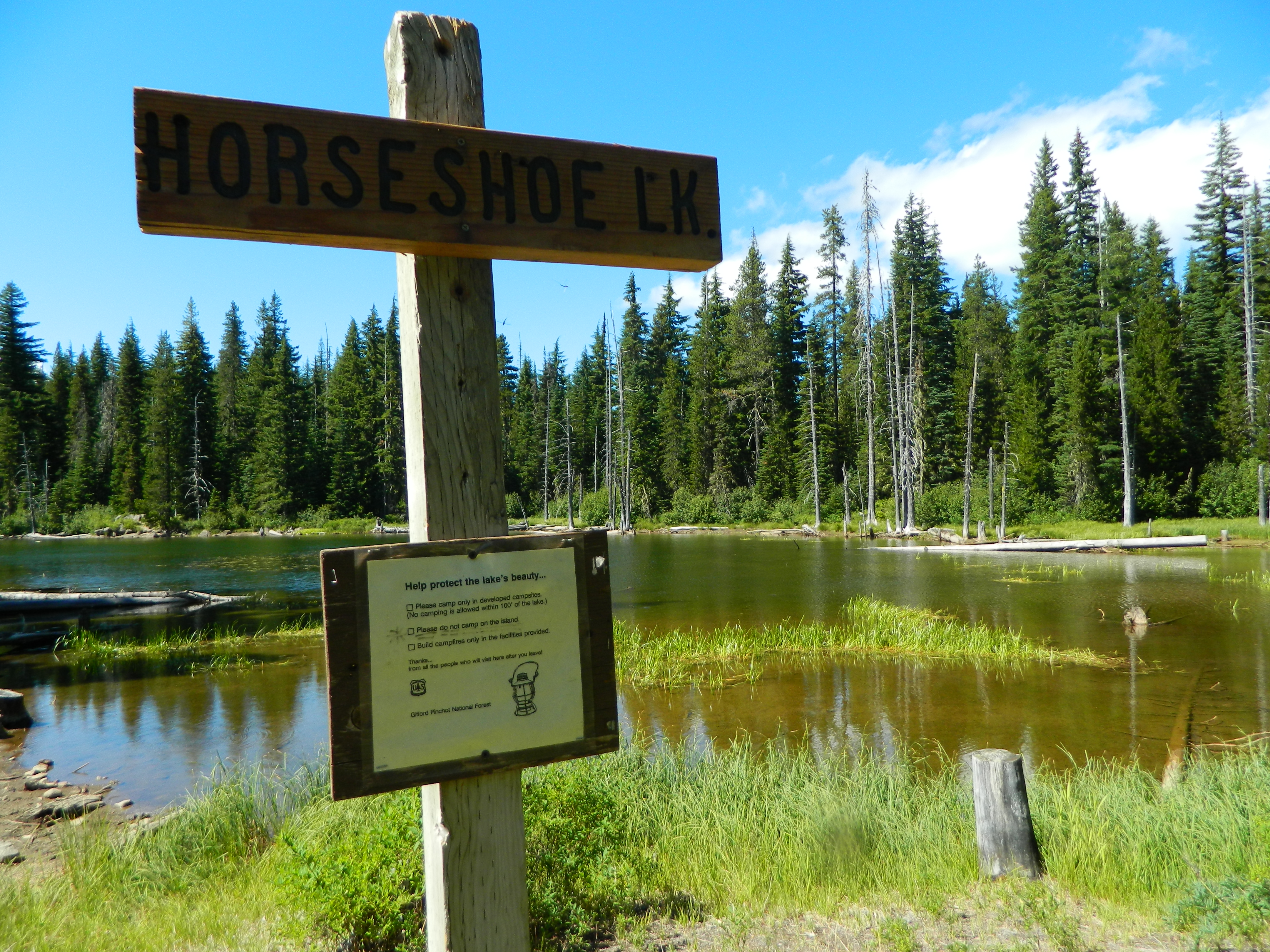 High Lakes Area, GPNF, WA